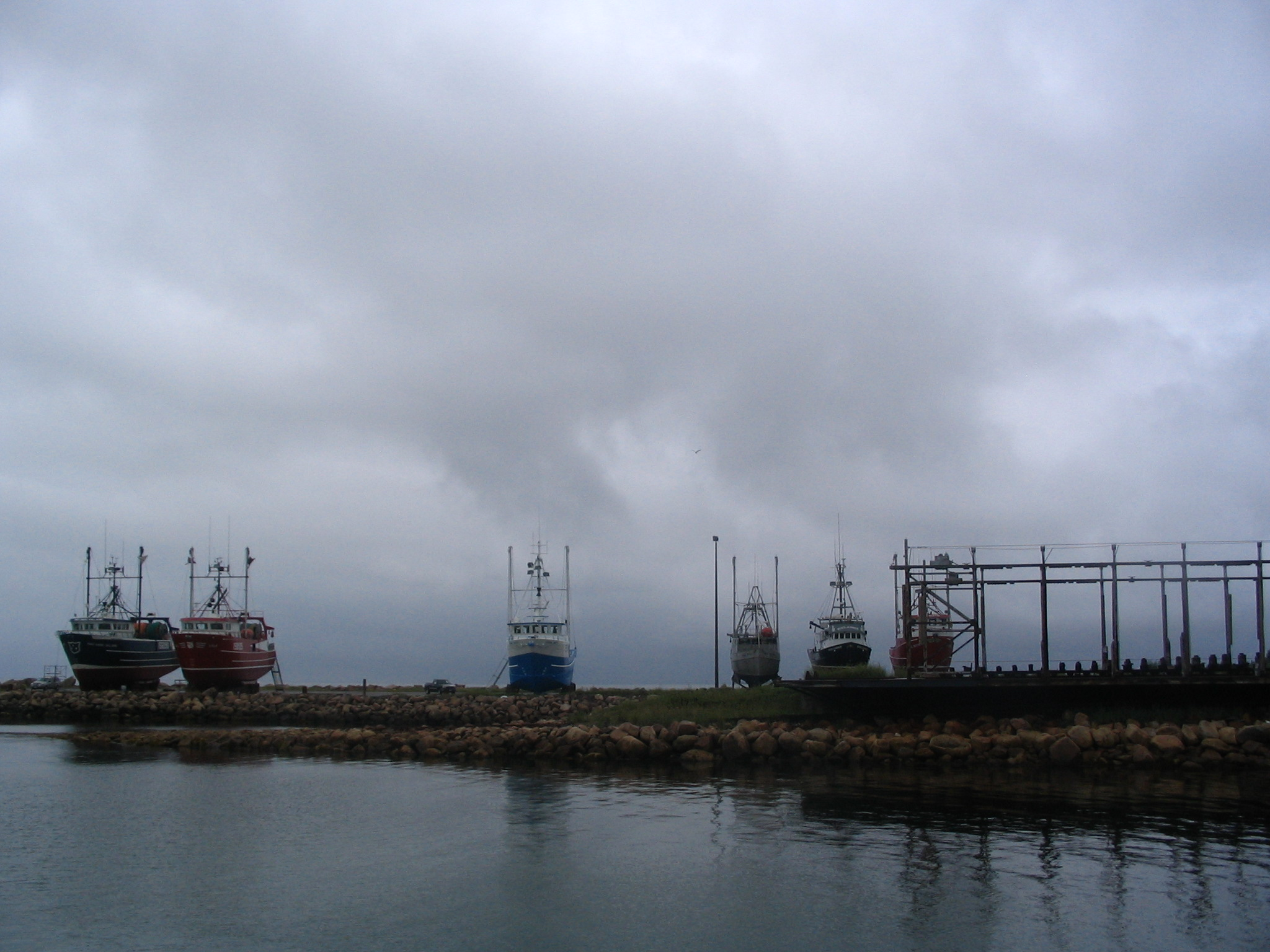 The shipyard of Bas-Caraquet, New Brunswick, Canada.